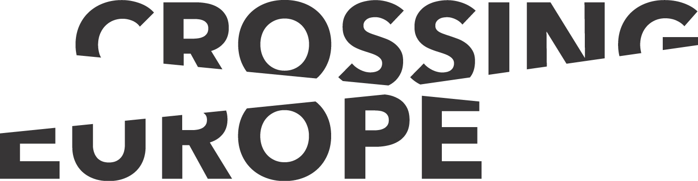 Logo Crossing Europe since 2018